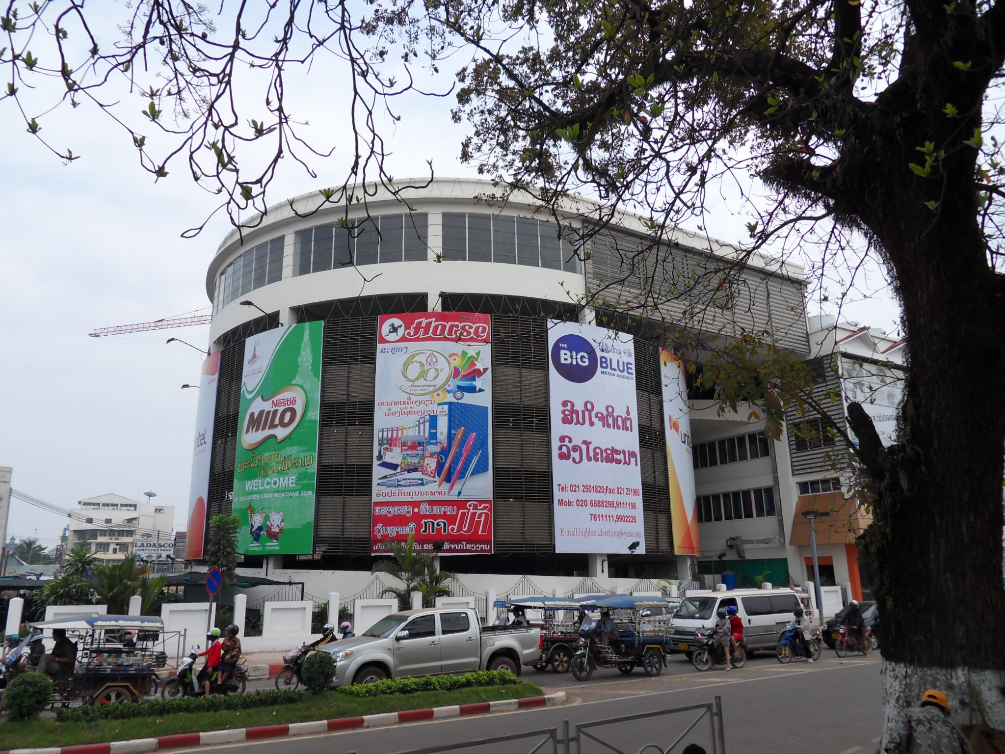 new buiding in Talat Sao (2009) : car park